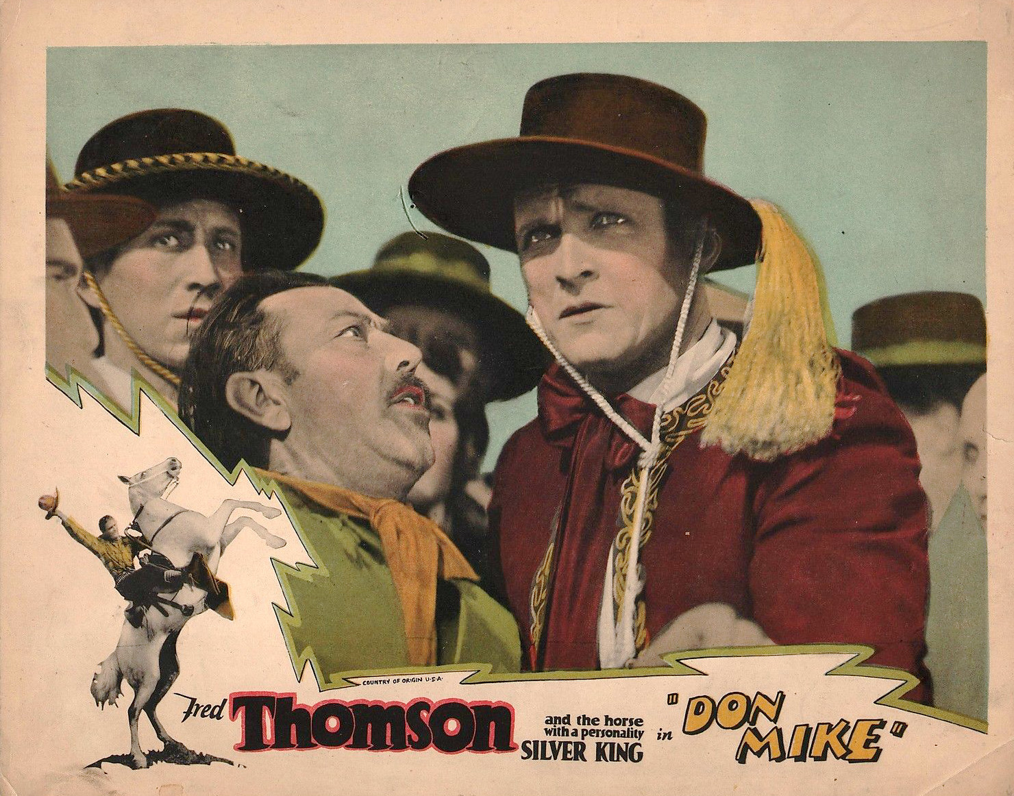 Lobby card for the American romance film Don Mike (1927) with Albert Prisco and Fred Thomson.